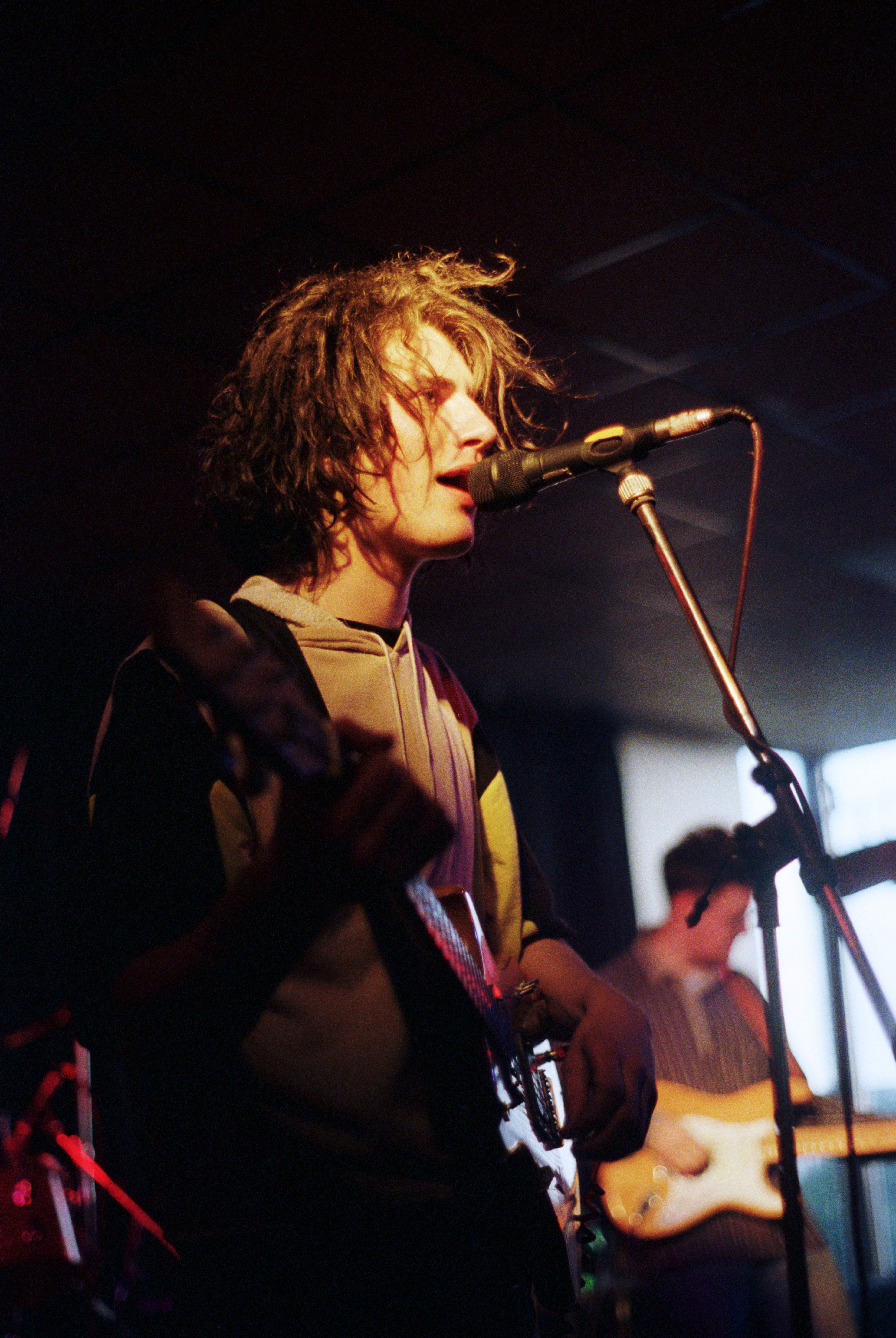 Gruff Rhys, Ffa Coffi Pawb. Roc Ystwyth 1989. Image by Medwyn Jones.